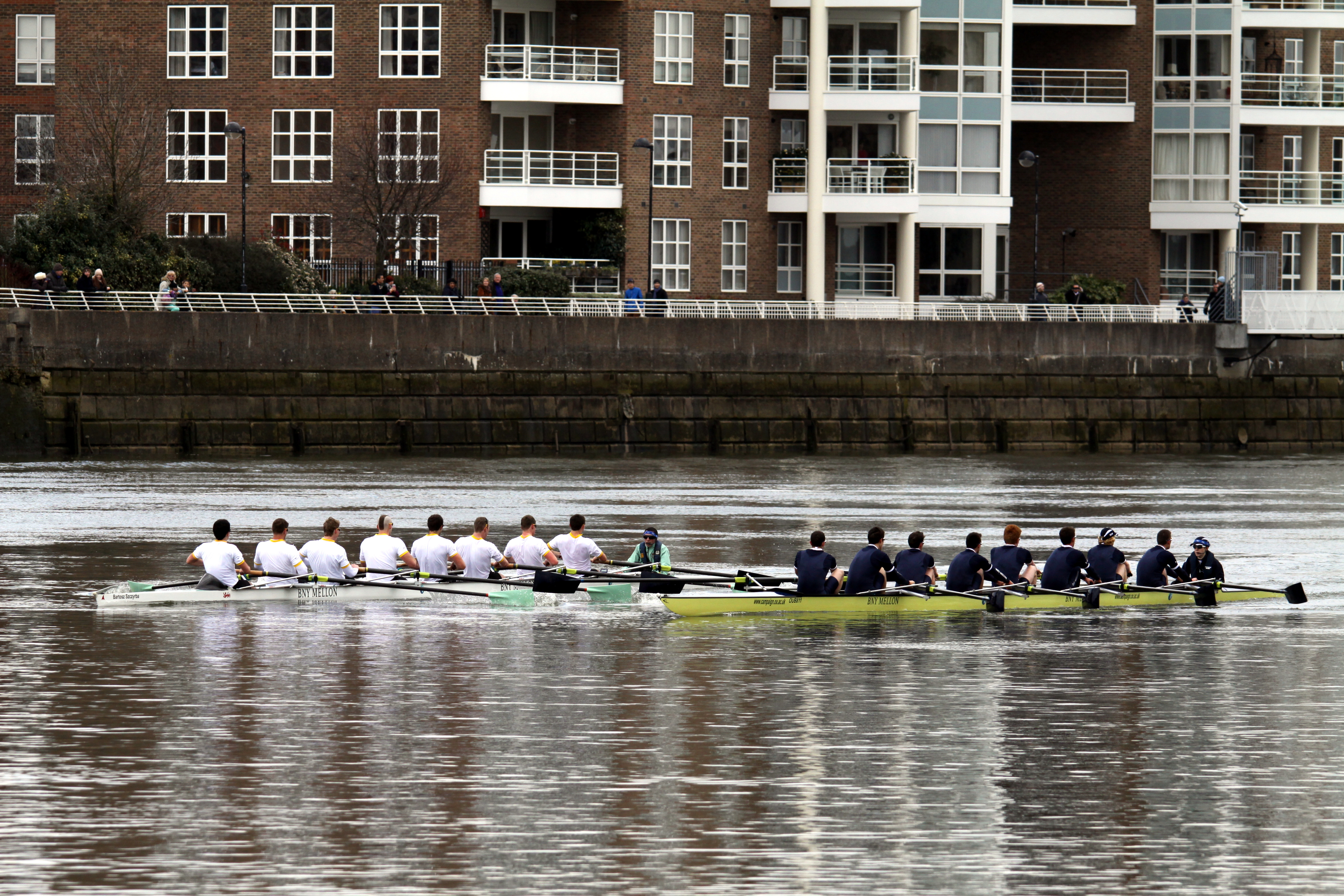 Race of reserve crews between Oxford (dark blue dresses) and Cambridge (white dresses) during the Boat Race on River Thames, England, Great Britain.